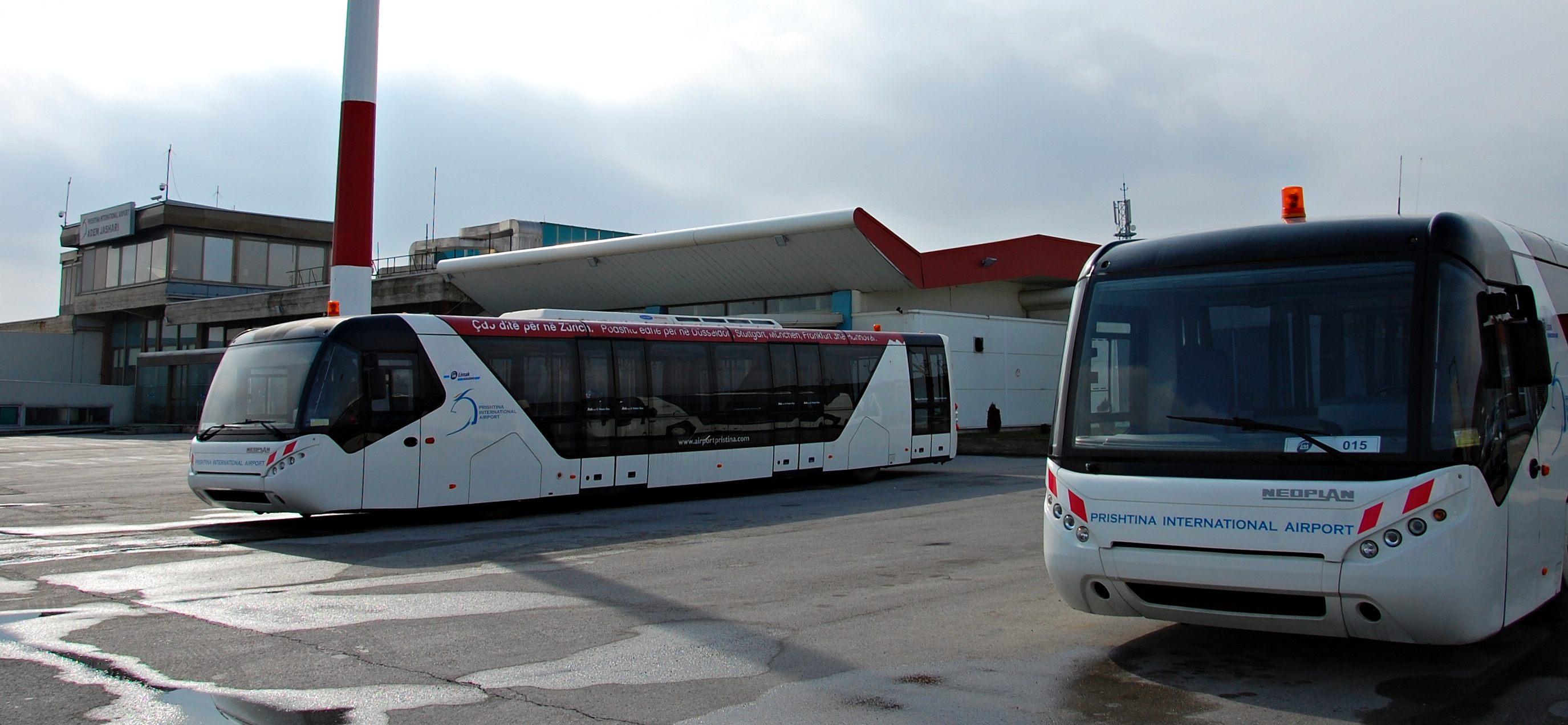 Prishtina Airport